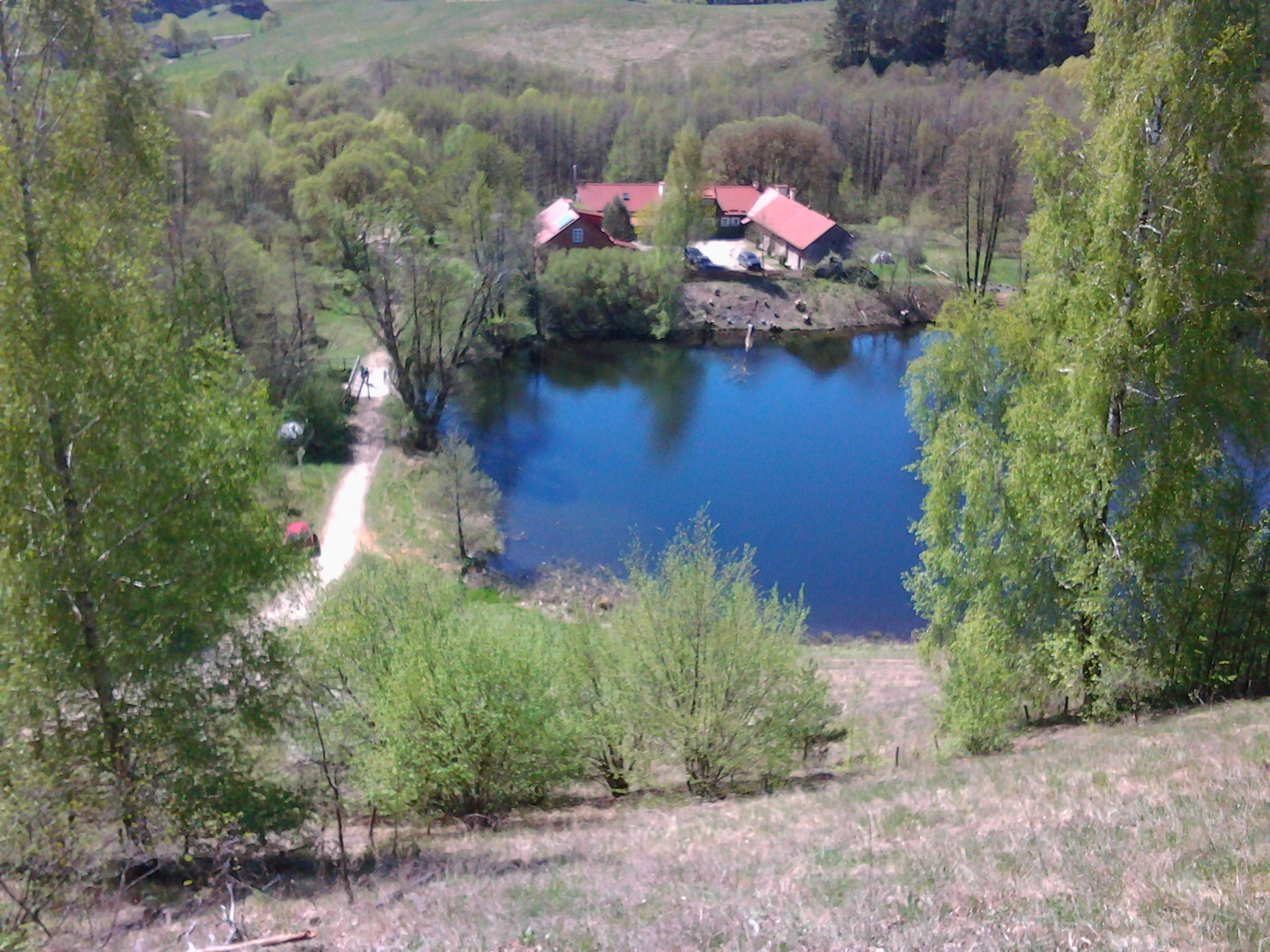 Mill pond in Turtul and Headquarter of Suwałki Landscape Park. Poland